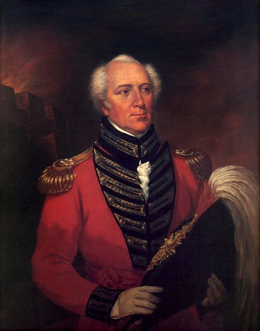 A portrait of Major-General William Farquhar (26 February 1774 – 13 May 1839) of the East India Company, who was the 6th Resident of Malacca and the 1st Resident of colonial Singapore.